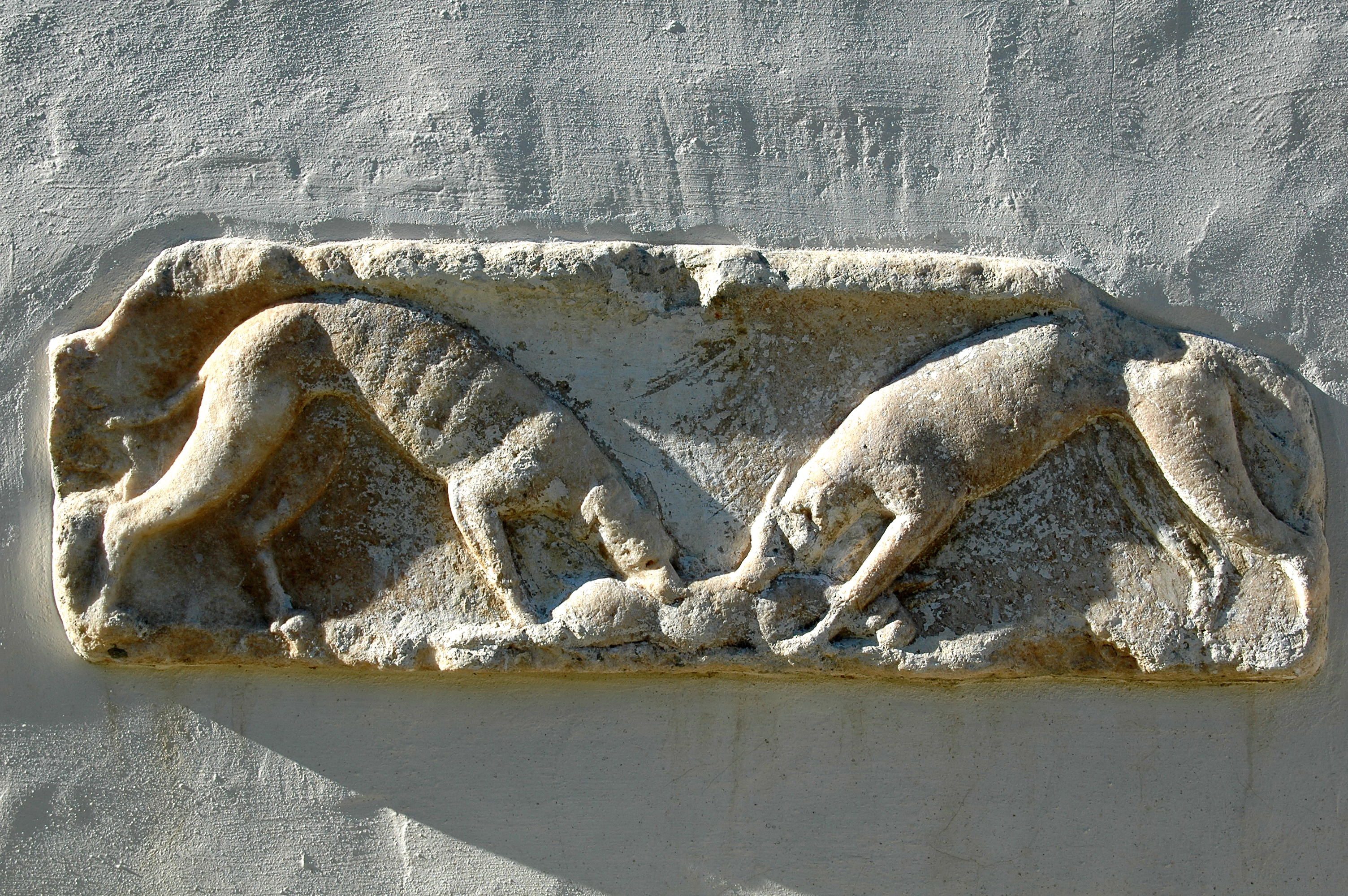 Relief frieze of two greyhounds grabbing a rabbit on an ancient Roman gravestone (CSIR II/5, 567), exposed at the southern exteriour wall of the parish church St. James the Greater in Tiffen, municipality Steindorf am Ossiacher See, district Feldkirchen, Carinthia, Austria, EU